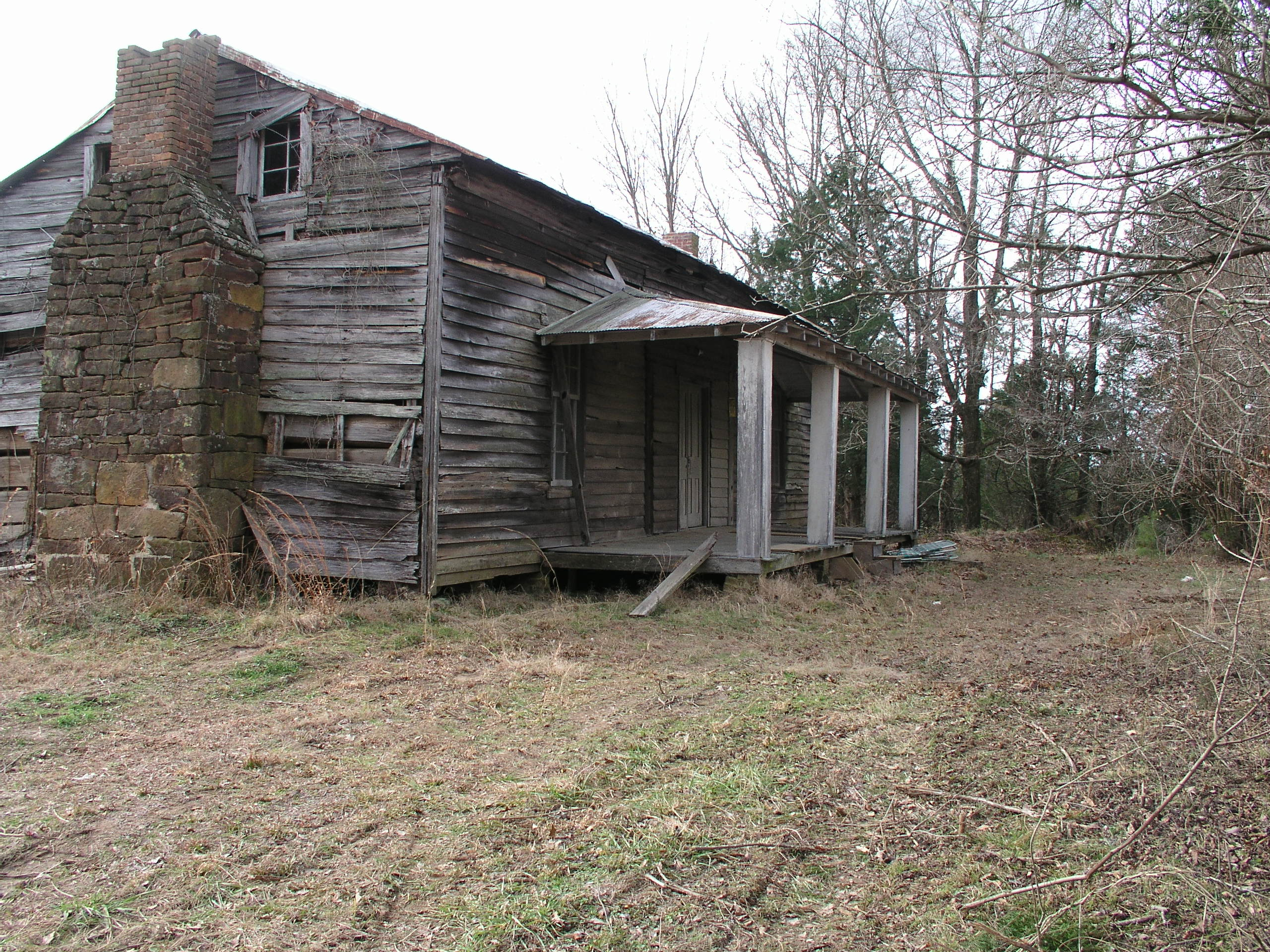 George W Young House is on the NRHP and is located outside Oxford, MS. It is a photograph of the northeast elevation taken c2005.